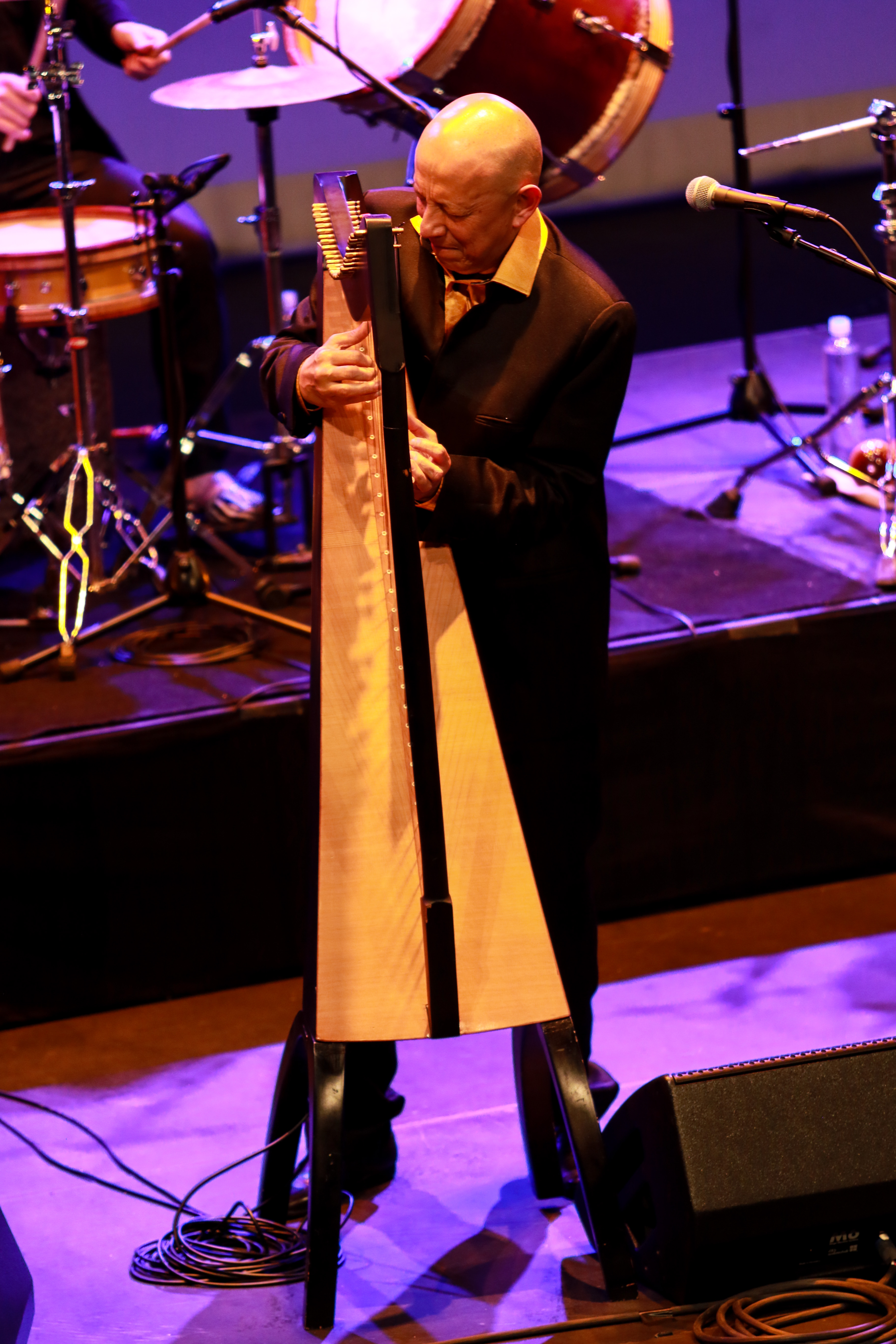 Carlos Cuco Rojas, colombian harpist from Cimarron.